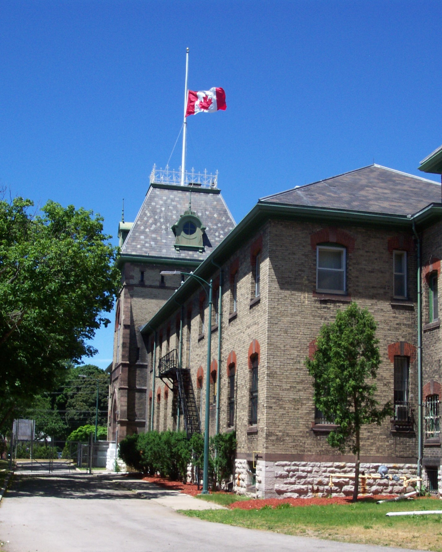 West wing of Wolseley Hall at Area Support Unit London. This building houses The Royal Canadian Regiment Museum.